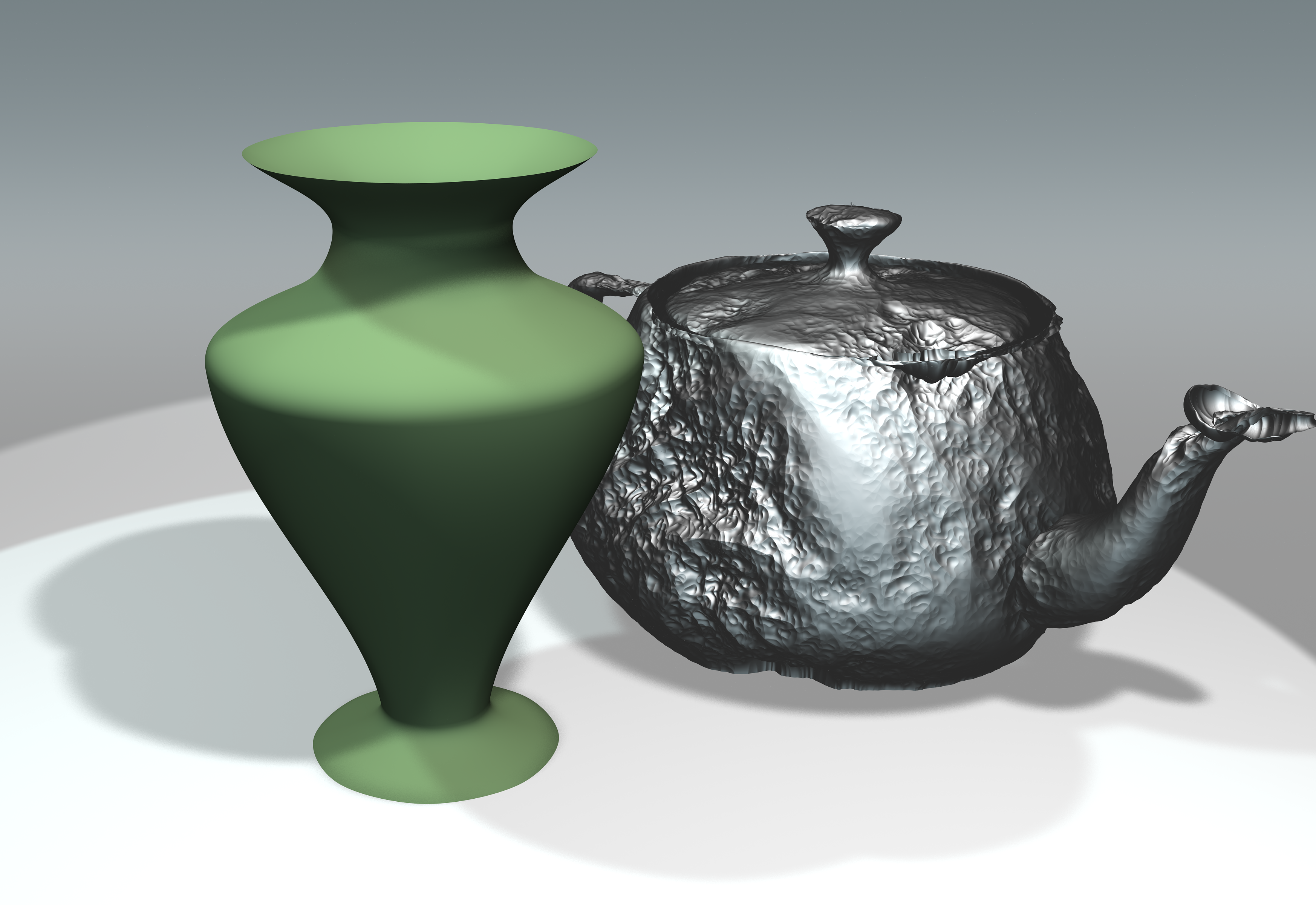 The Utah teapot with a displacement shader rendered by the Pixar RenderMan-compliant Aqsis REYES renderer